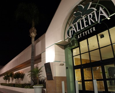 Northeastern entrance to the Galleria at Tyler shopping mall entrance in Riverside, California. View looking south. This photograph was taken with an Olympus E-510 DSLR camera and edited (sharpness, crop) using ArcSoft PhotoStudio 5.5)